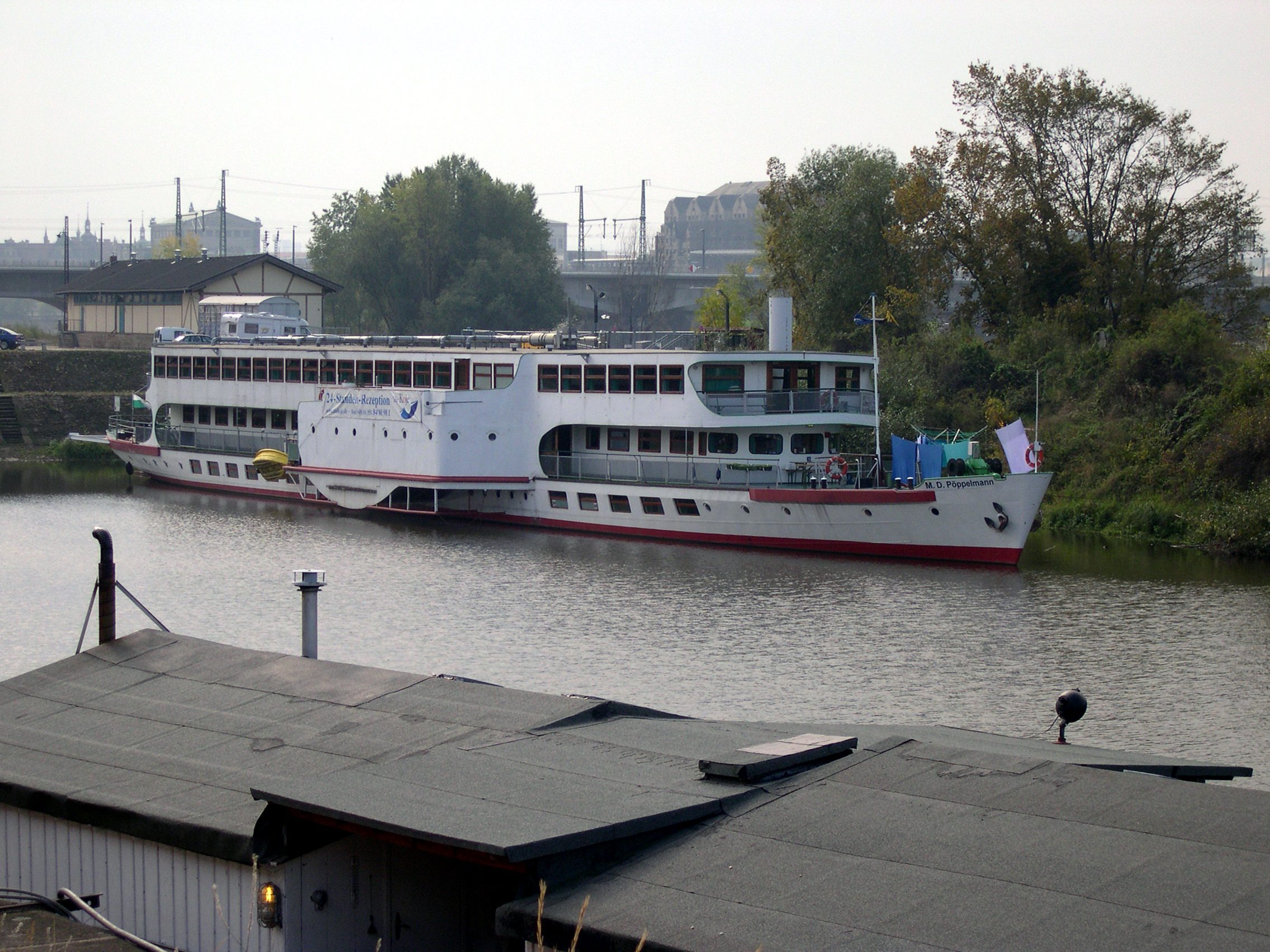 Hostel ship, also "Die Koje", was used as youth hostel, made from the steam boat "MS Karl Marx", which was renamed 1991 to "Daniel Pöppelmann - but never used with this name, built 1963 in Roßlau